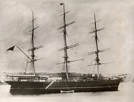 Thermopylae. Builder: Walter Hood, Aberdeen, 1868. Dimensions: 212 x 36 x 20. Tonnage: 948 tons. Type: Wooden Clipper Ship.